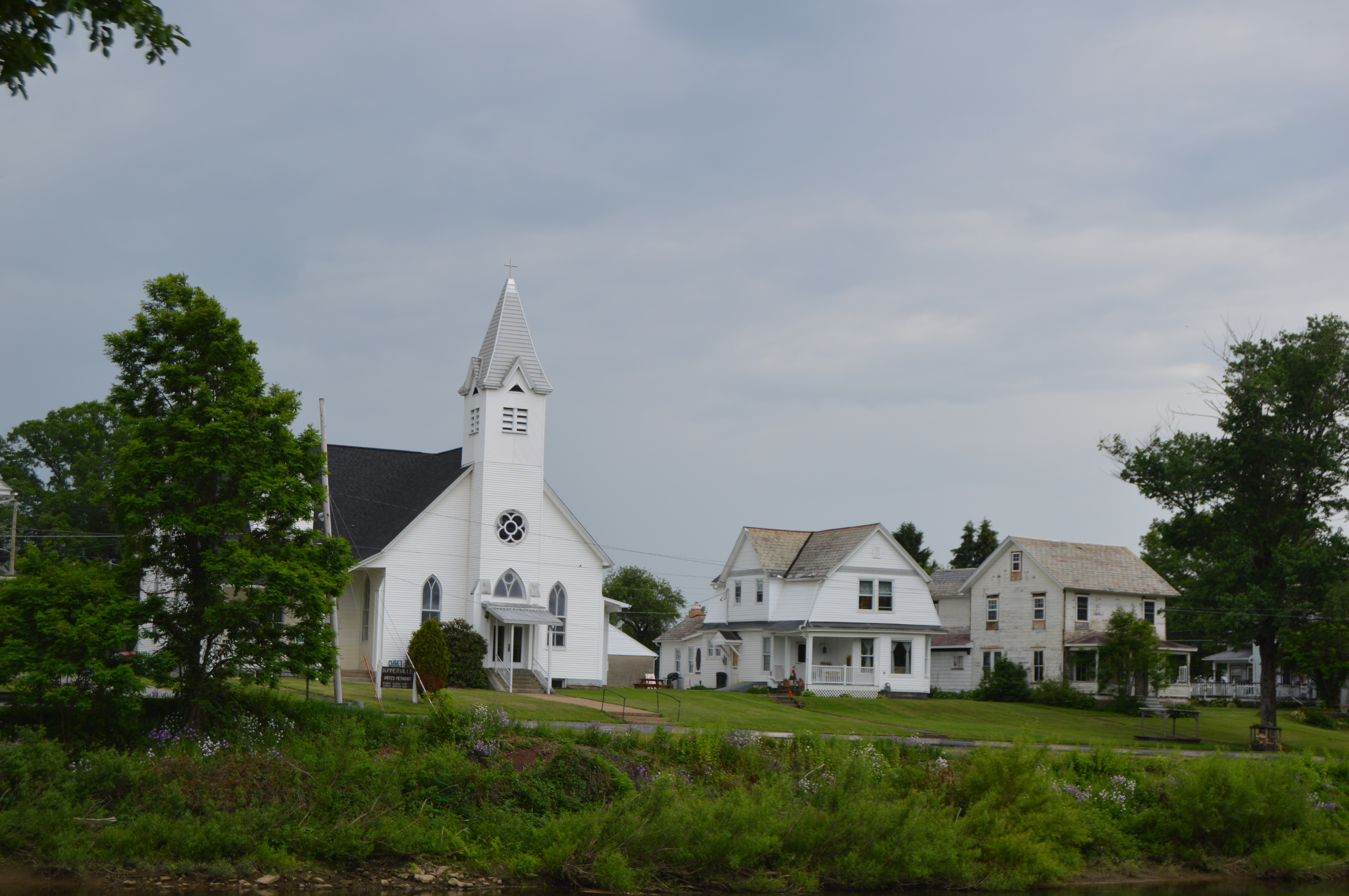 Houses and the community Methodist church on Church Street west of Third Avenue, seen from Water Street on the other side of Redbank Creek, in Summerville, Pennsylvania, United States.